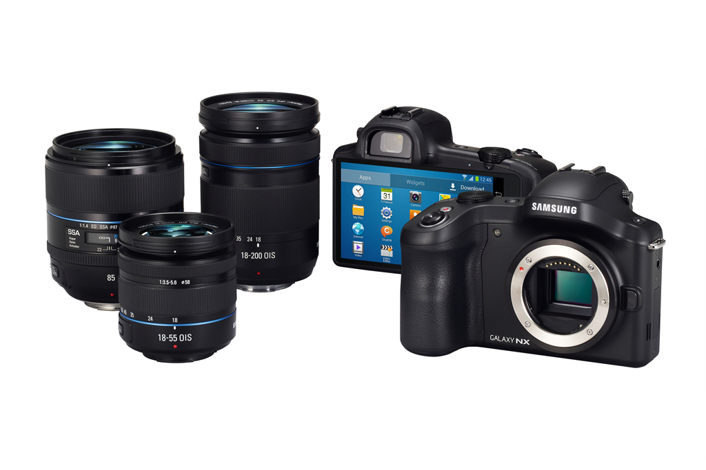 Galaxy NX by SamsungBE